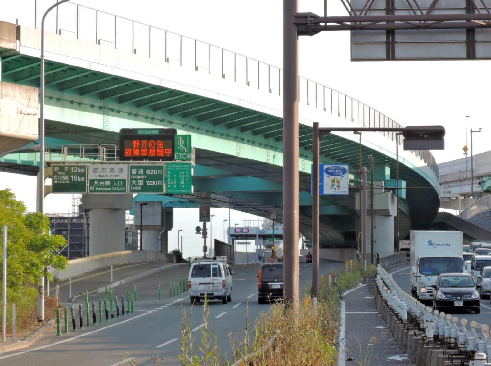 Tsukiguma Junction and Nishitsukiguma Interchange on the Fukuoka Expressway, seen from the Ryugeji kita Intersection on the National Route 3